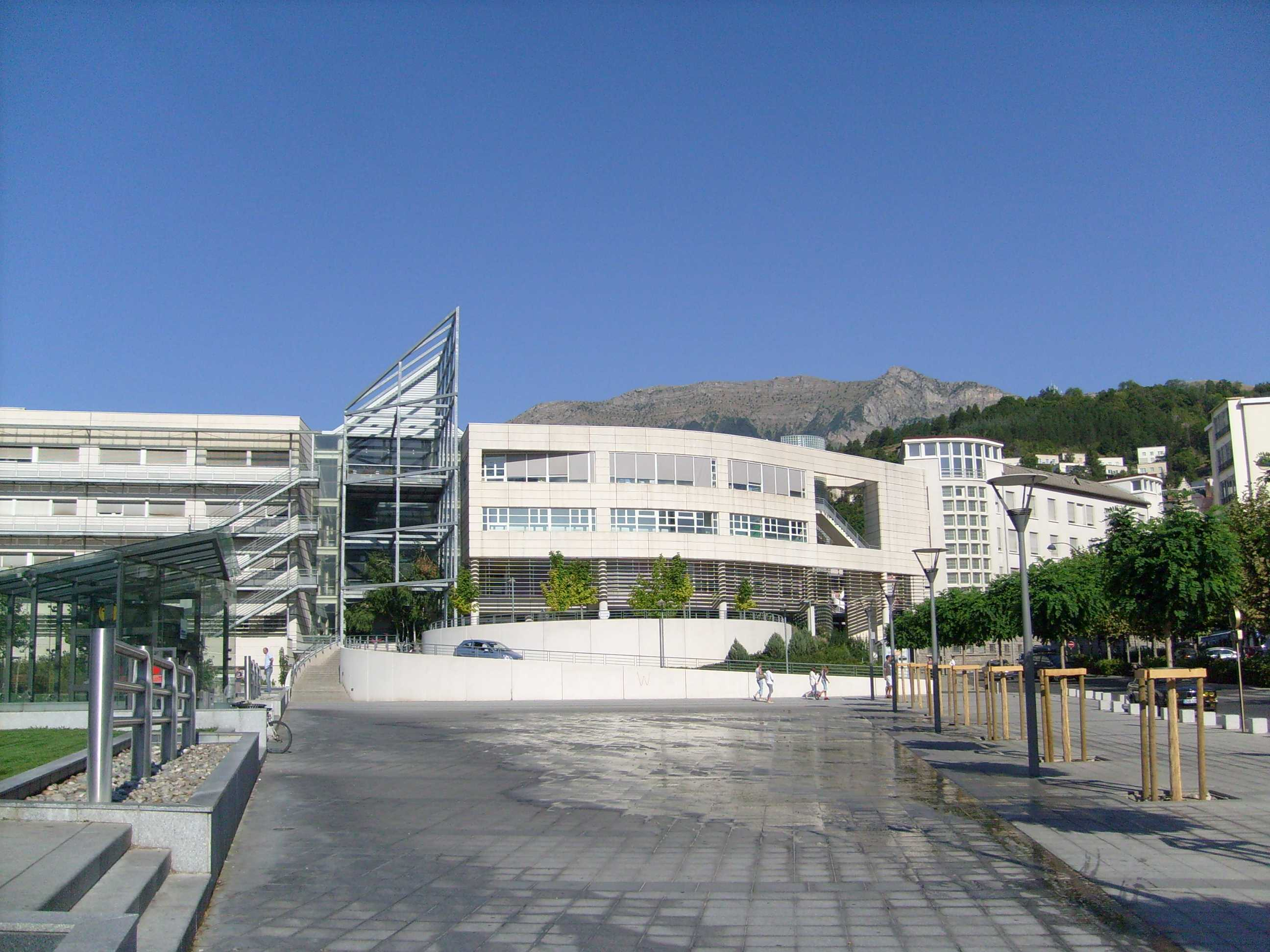 Hospital, Gap( Hautes-Alpes, France).